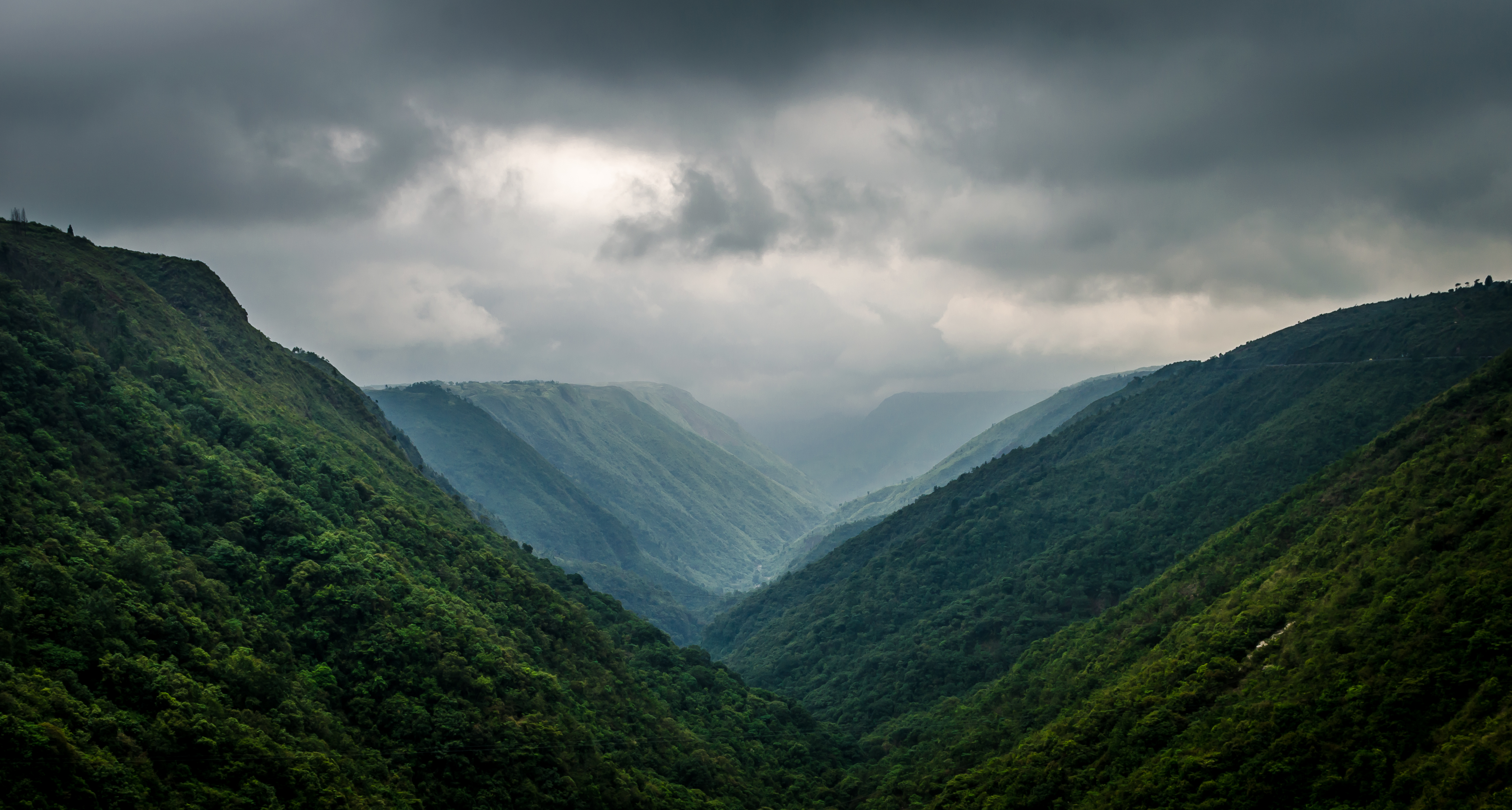 This amazing view is captured in East Khasi Hills, Meghalaya while travelling to Cherrapunji from Shillong